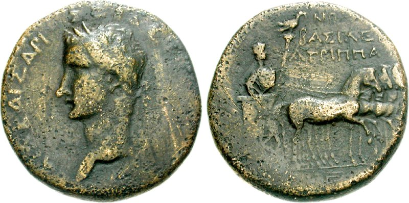 JUDAEA, Herodians. Agrippa I, with Gaius (Caligula). 37-43 CE. Æ 23mm (11.53 g, 12h). Caesarea Paneas mint. Dated RY 5 (40/1 CE). laureate head of Gaius (Caligula) left, [G]A[I]W KAISARI SEBASTW [GERMANIKW], NOM[ISMA]/BASILE[WS]/AGRIPPA, Germanicus in triumphal quadriga right, holding eagle-tipped scepter; [car decorated with Nike standing right]; LE in exergue. RPC I 4976; Burnett, Coinage 4; Meshorer, p. 93-94 and 116M (same obv. die); SNG ANS 261 (Tiberias; same dies); Hendin 549. Near VF, brown patina, areas of soft strike and porosity, light scratches in right field of obverse. Very rare.